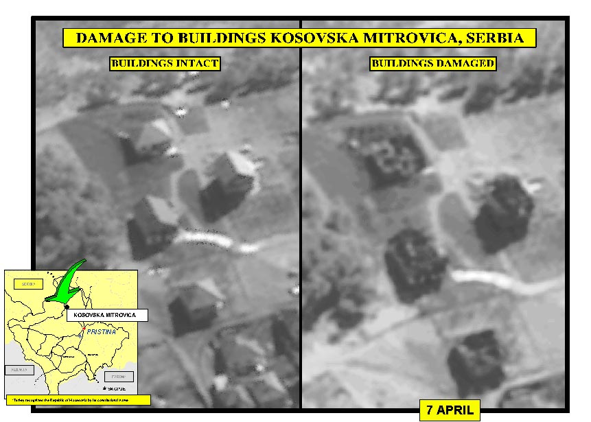 Damaged buildings in Kosovoska Mitrovica, 1999.